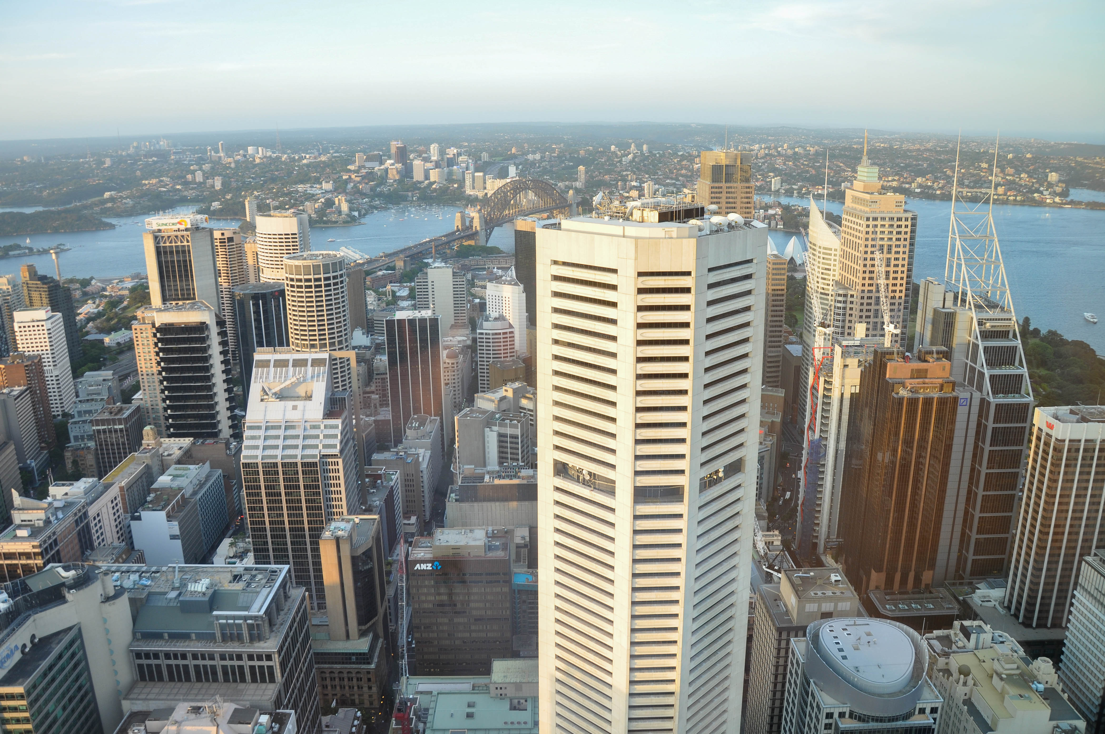 Sydney Tower is Sydney's tallest structure, it is also the second tallest observation tower in the Southern Hemisphere, after Auckland's Sky Tower, though Sydney Tower Eye's main observation deck is almost 50 m (164 ft) higher than that of Auckland's Sky Tower. The name Sydney Tower has become common in daily usage, however the tower is also known as the Sydney Tower Eye, AMP Tower, Westfield Centrepoint Tower, Centrepoint Tower or just Centrepoint. The Sydney Tower is a member of the World Federation of Great Towers. The tower stands 309 m (1,014 ft) above the Sydney central business district (CBD), located on Market Street, between Pitt and Castlereagh Streets. It is accessible from the Pitt Street Mall, and sits upon the newly refurbished Westfield Sydney (formerly centrepoint arcade). The tower is open to the public, and is one of the most prominent tourist attractions in the city, being visible from a number of vantage points throughout town and from adjoining suburbs. While the shopping centre at the base of the tower is run by the Westfield Group, the tower itself is occupied by Trippas White Group, which owns and operates Sydney Tower Dining, and Merlin Entertainments, which owns and operates the Sydney Tower Eye and Oztrek